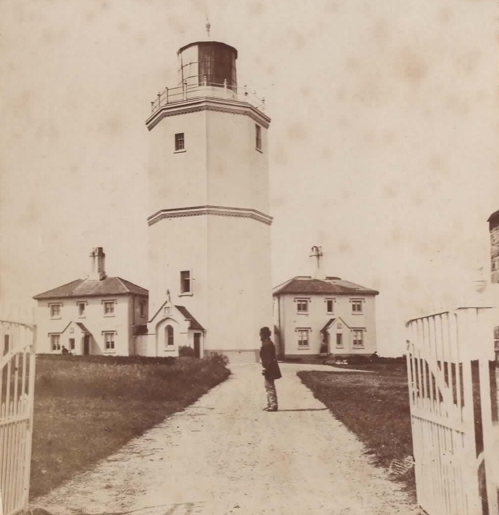 North Foreland lighthouse at Broadstairs, Kent, England taken about 1880 and showing the modernised light as it was after 1860